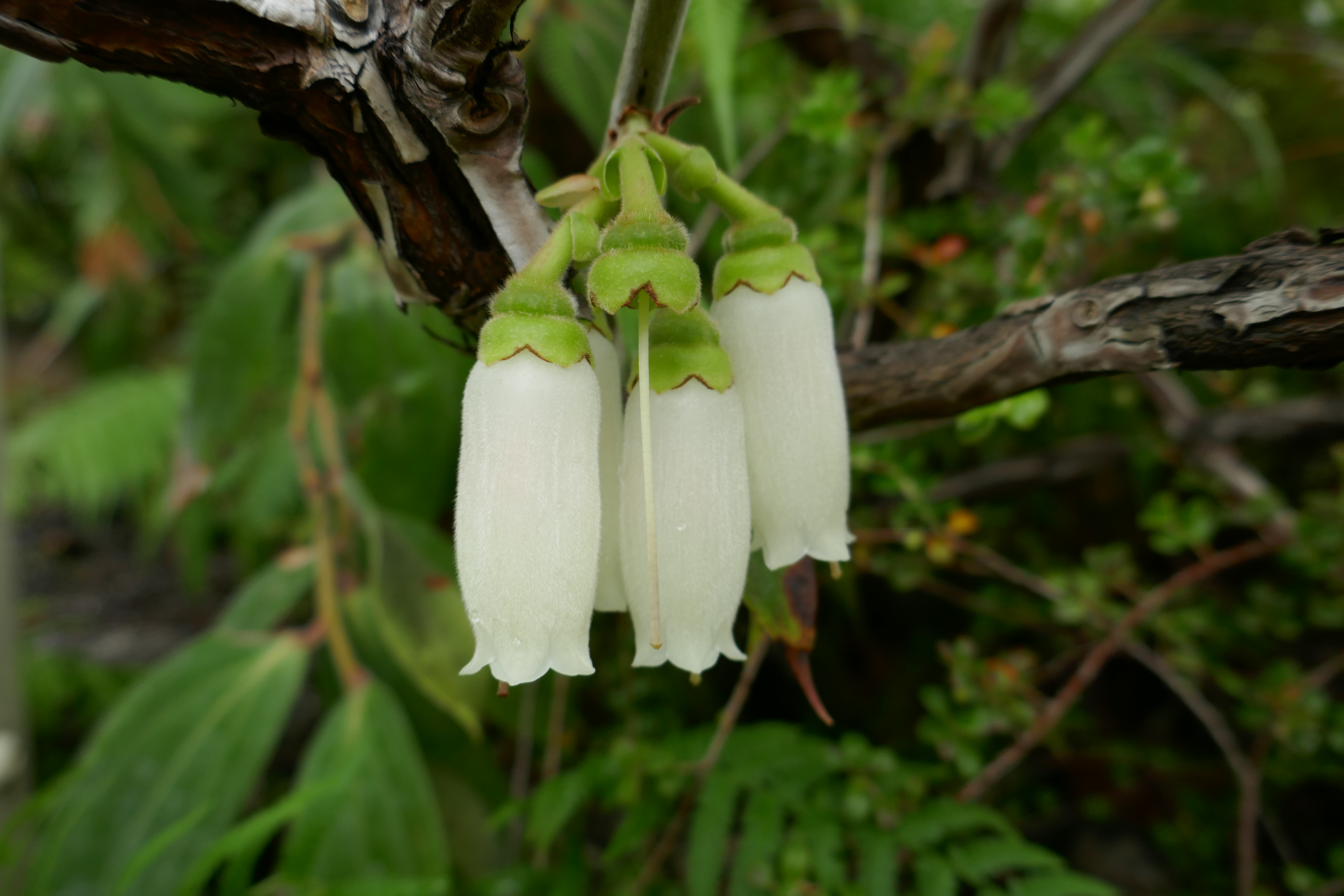 Dimorphanthera amoena (Ericaceae) cultivated in a glasshouse of The Irish National Botanic Gardens, Glasnevin, Dublin, Ireland.